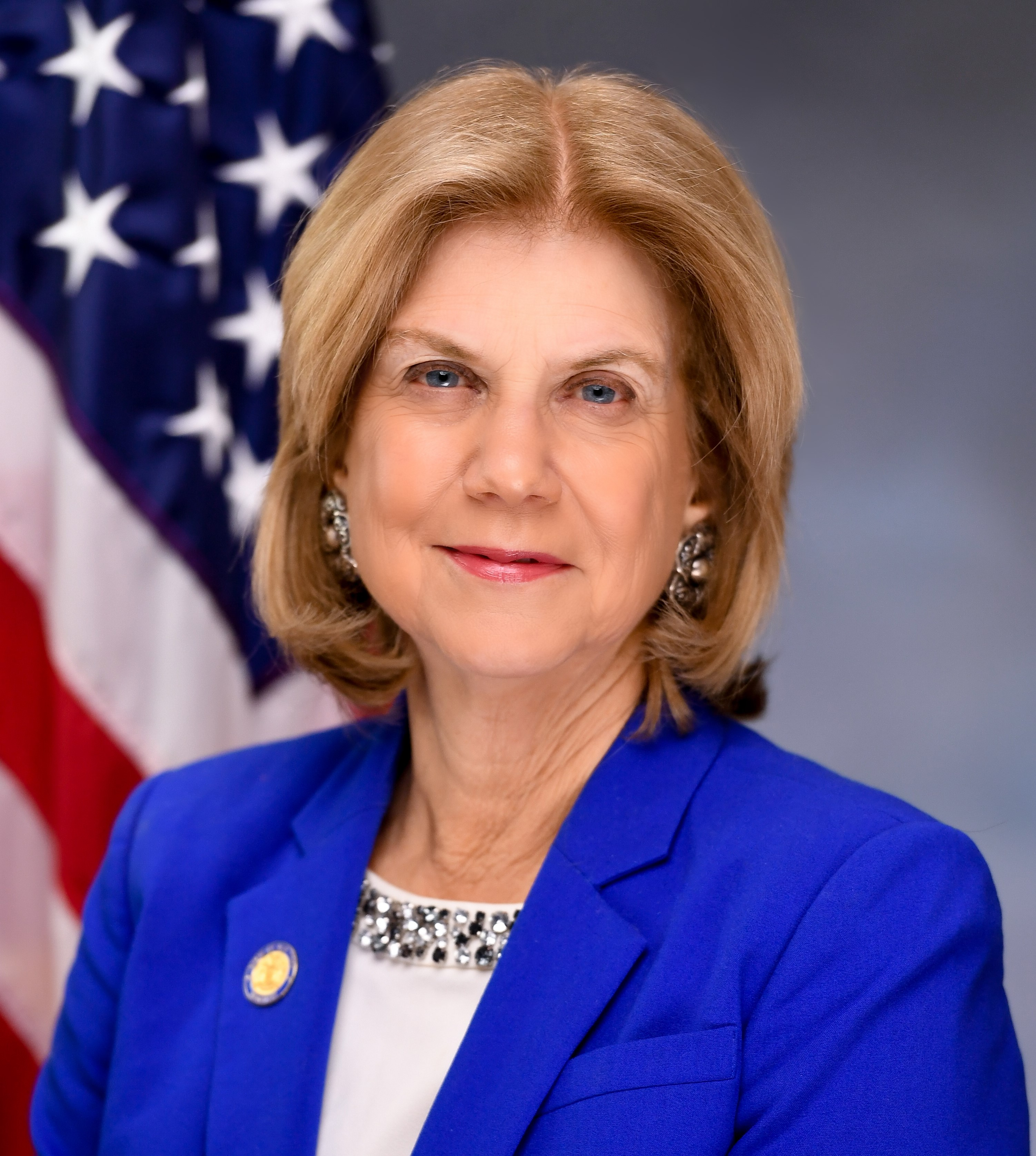 NYS Senator Shelley B. Mayer in 2019